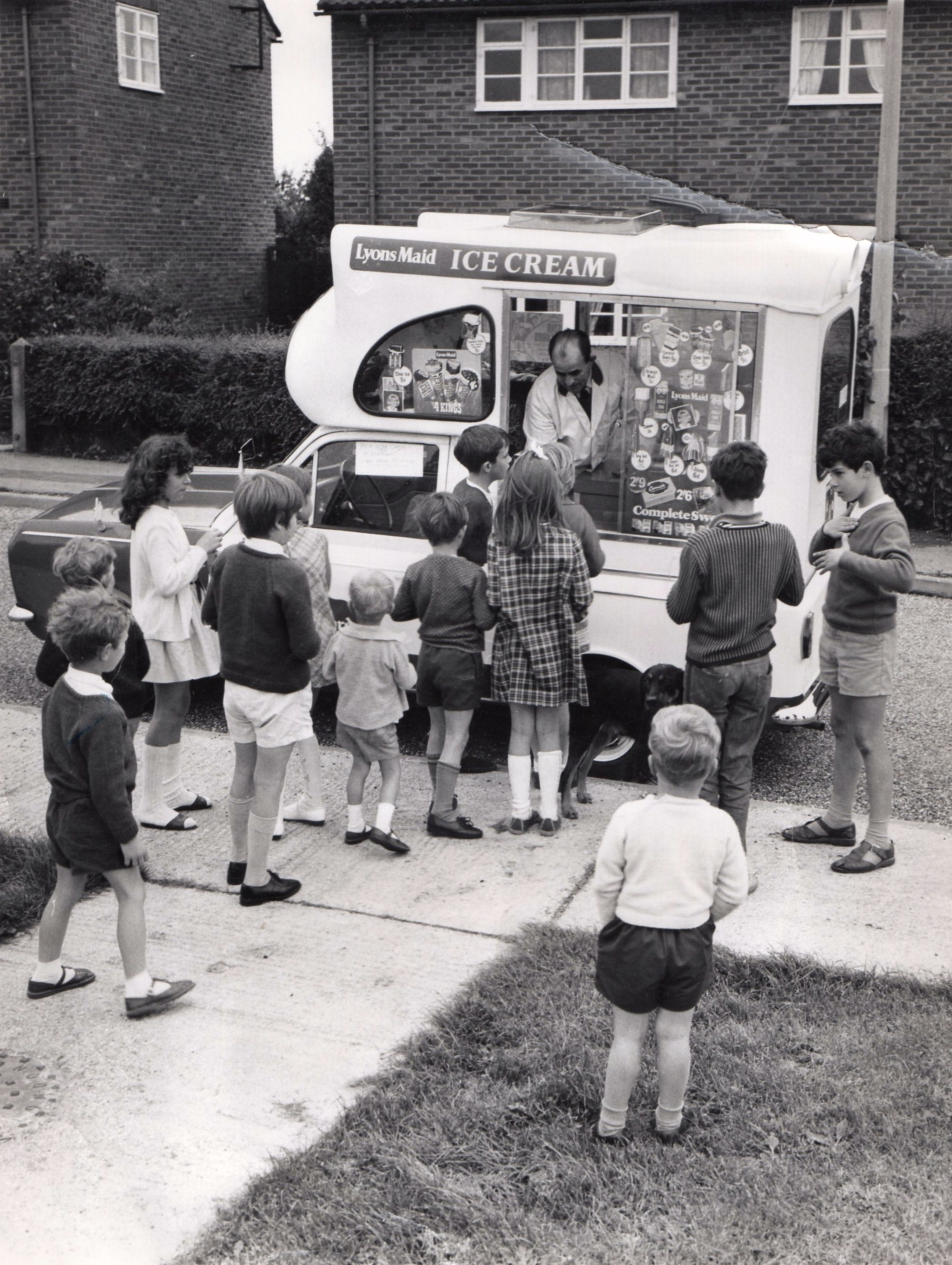 Lyons Maid ice-cream van, Cambridge 1960's.